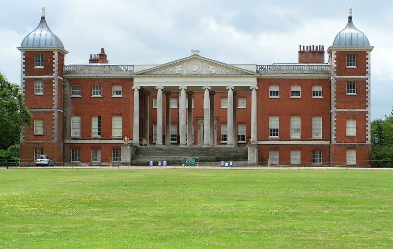 Osterley Park, London. Photo by sannse.